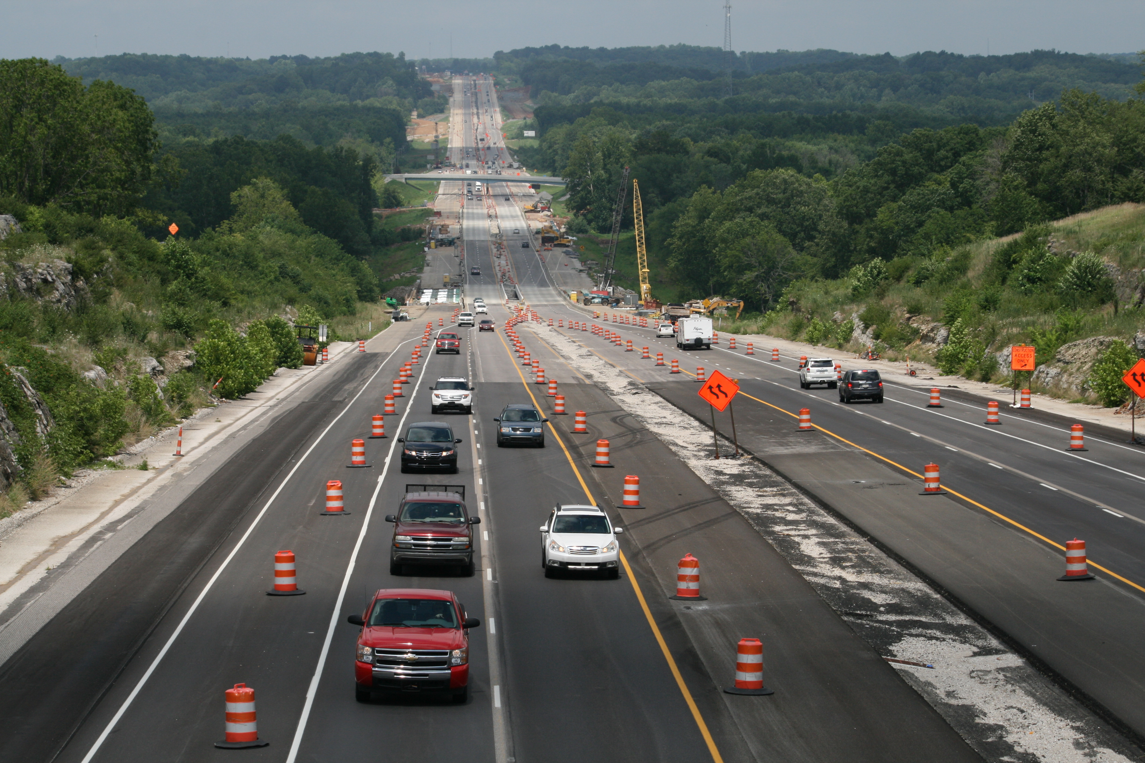 Indiana I-69 Corridor Project; Section 5; Monroe County